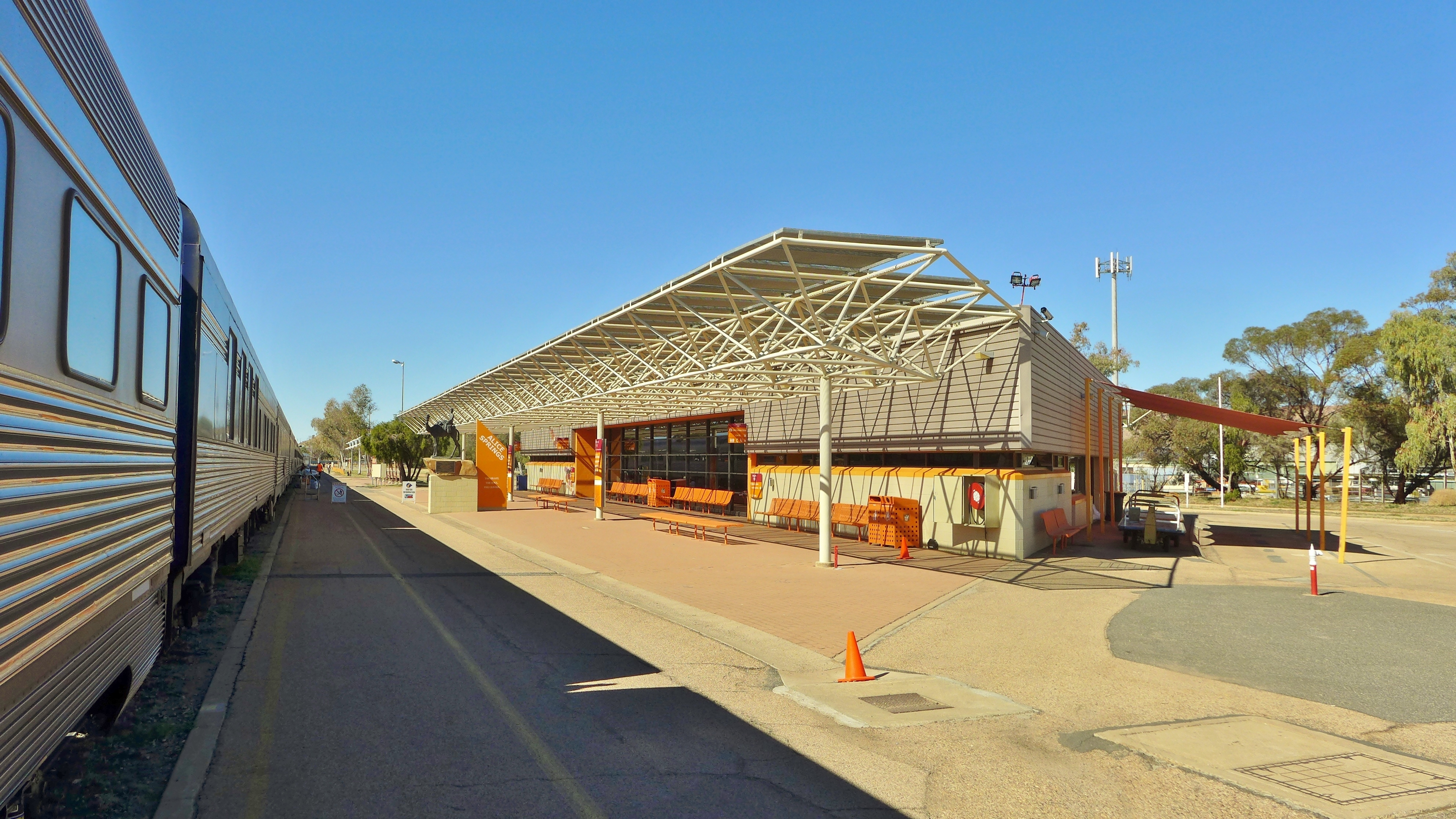 The Adelaide-bound four day Ghan pauses at Alice Springs while its passengers enjoy various tours of the local area.